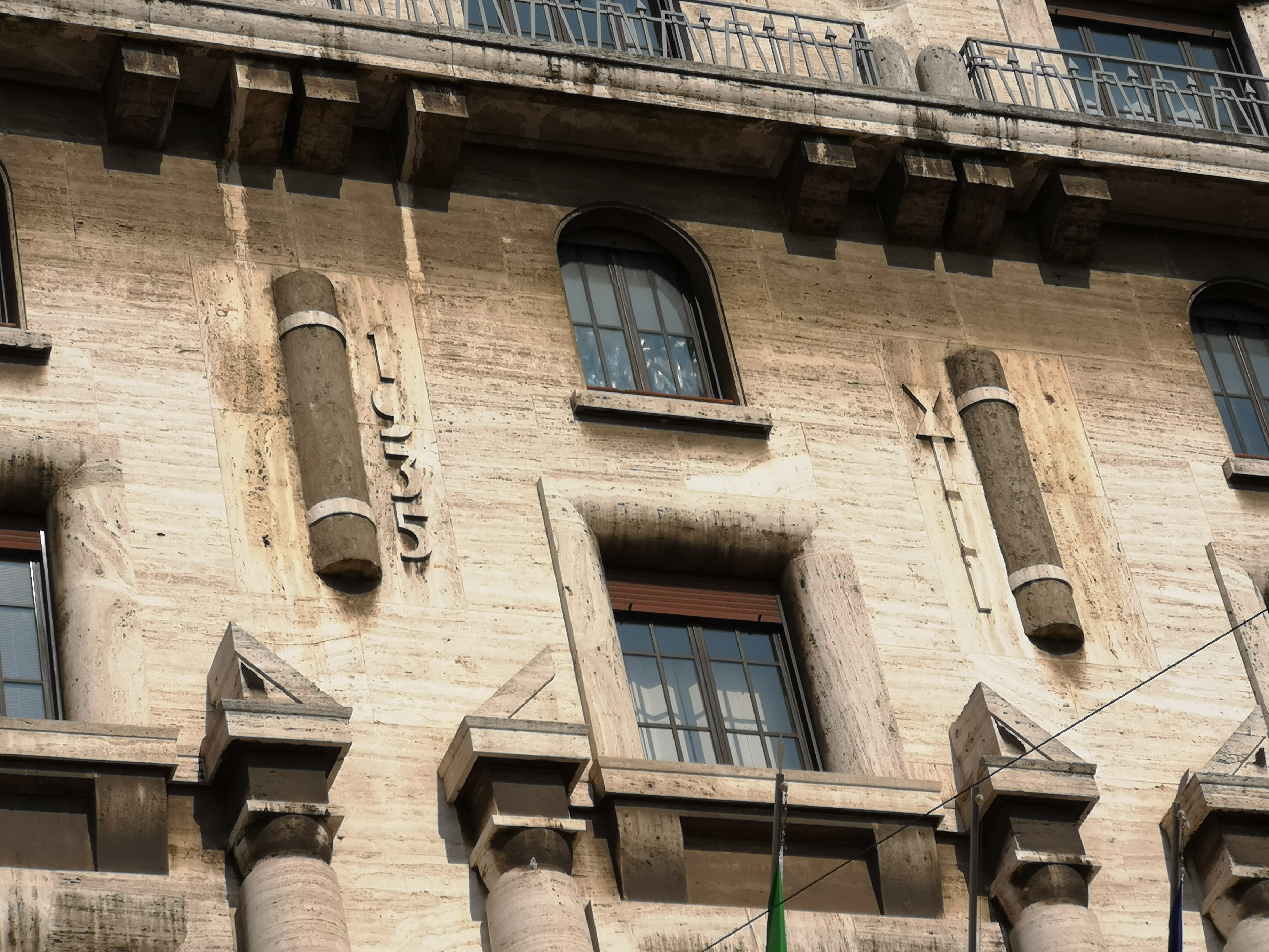 Facade of the Italian Revenue Agency in Milan, built in 1935, with fascist fasces (detail)